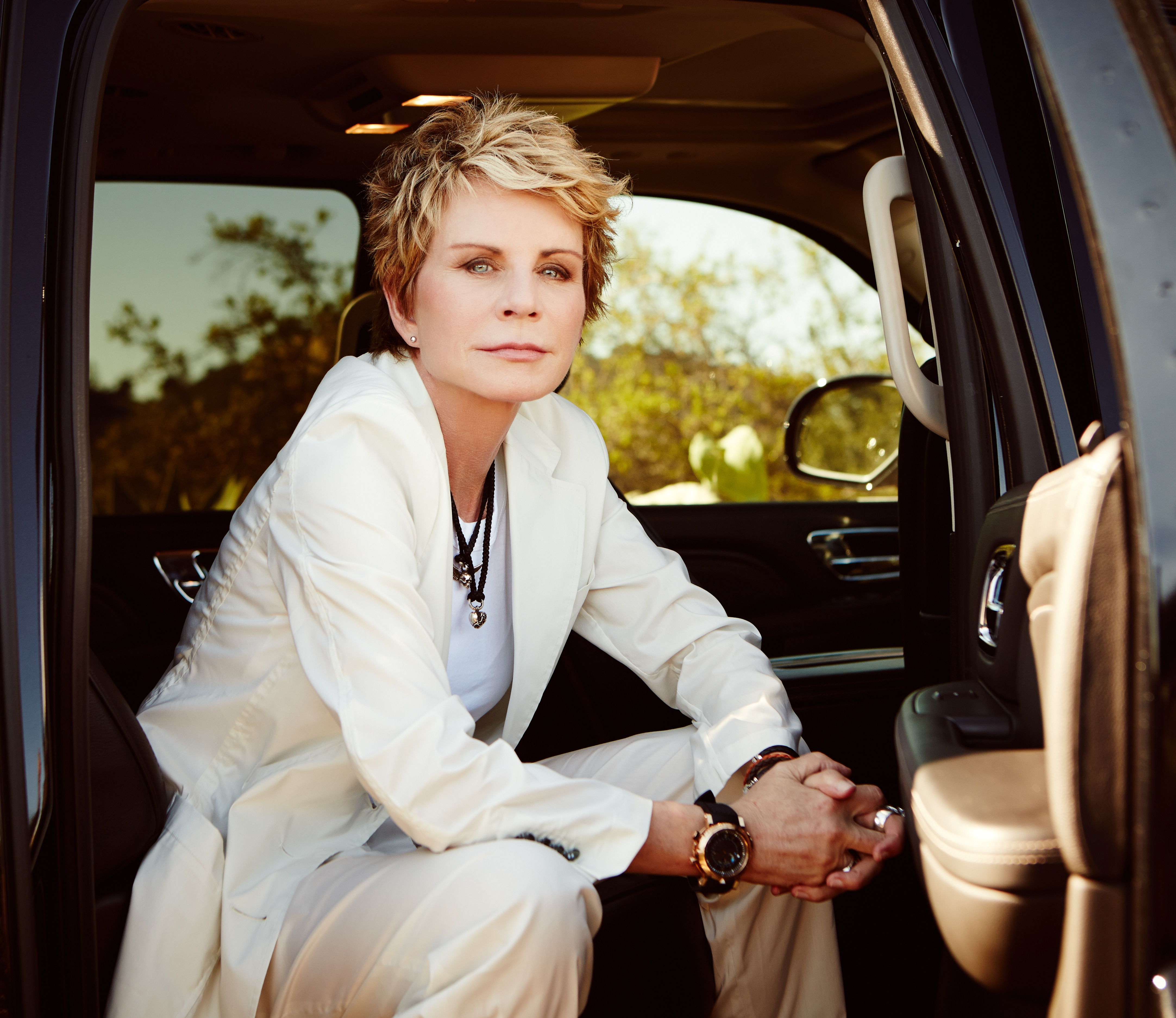 A photograph of Patricia Cornwell.